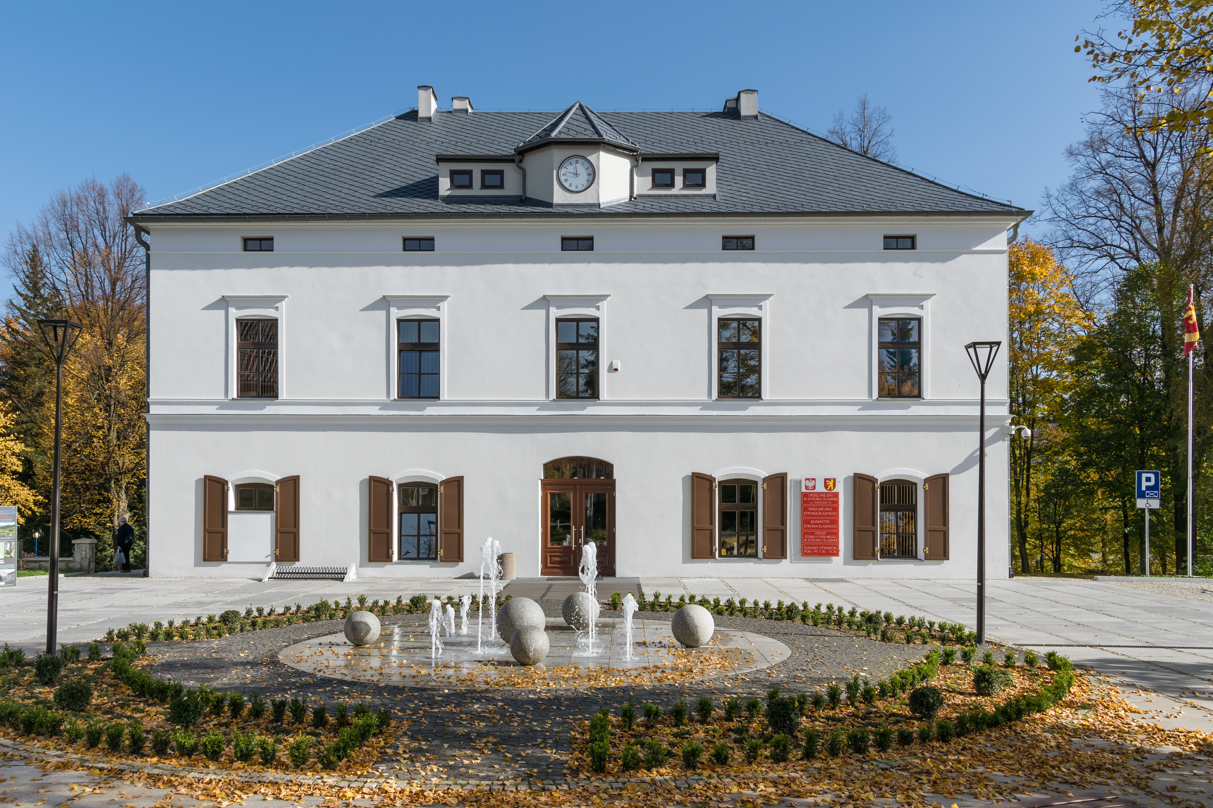 Marianna Orańska palace in Stronie Śląskie